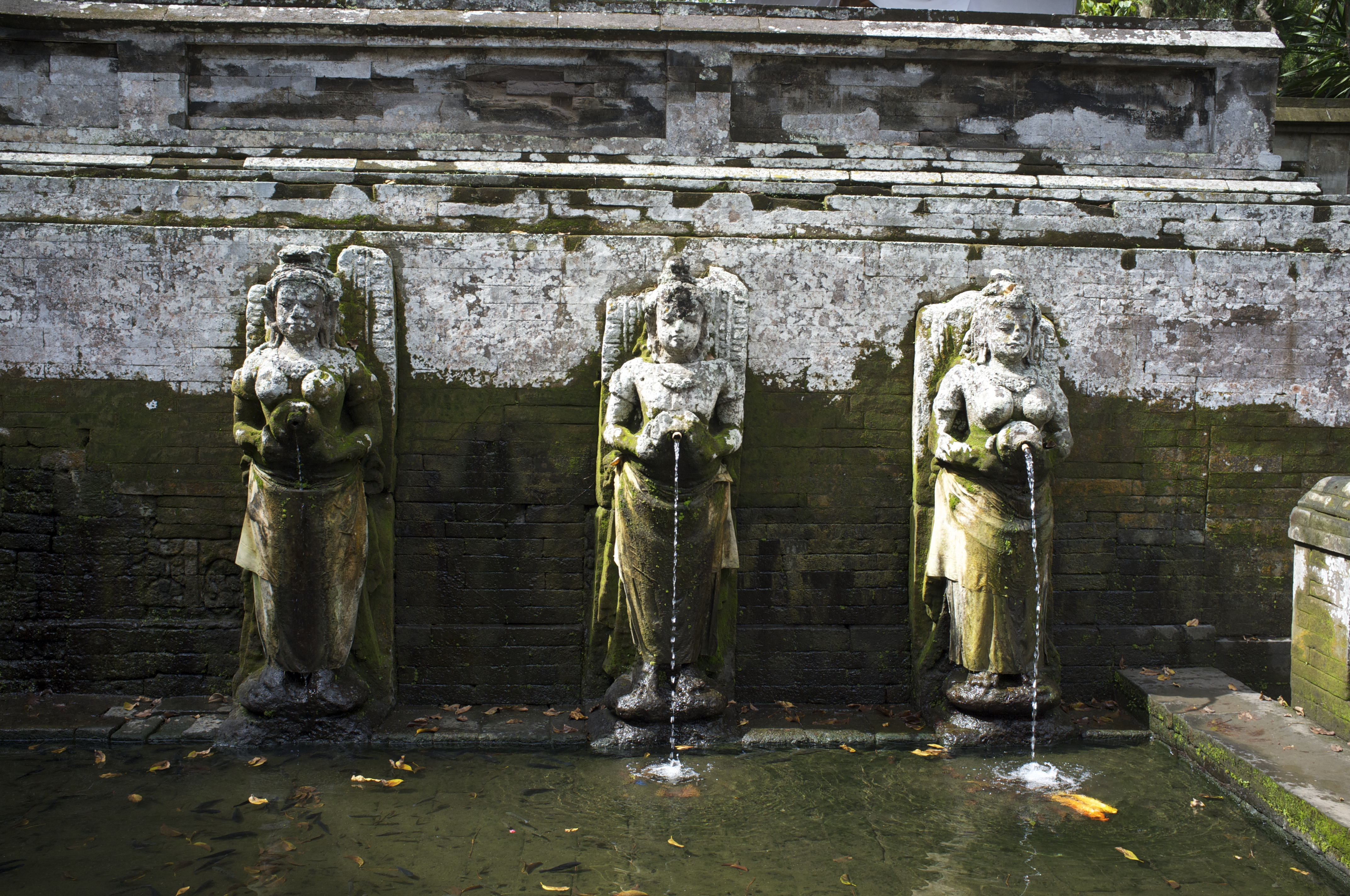 Water bodies at temple entrance are very common in Bali Hindu temples